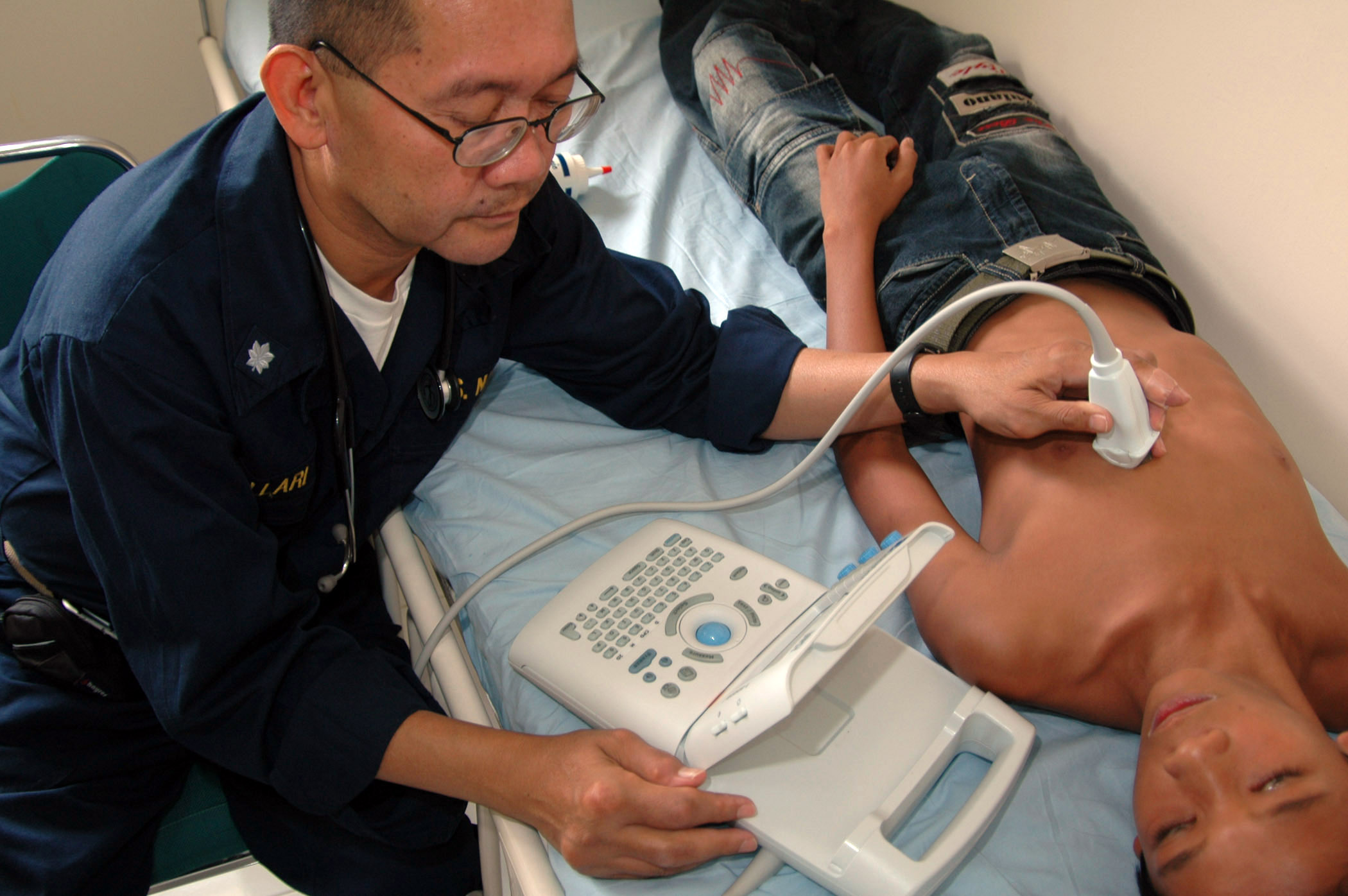 A physician performs an ultrasound examination on a indonesian man.